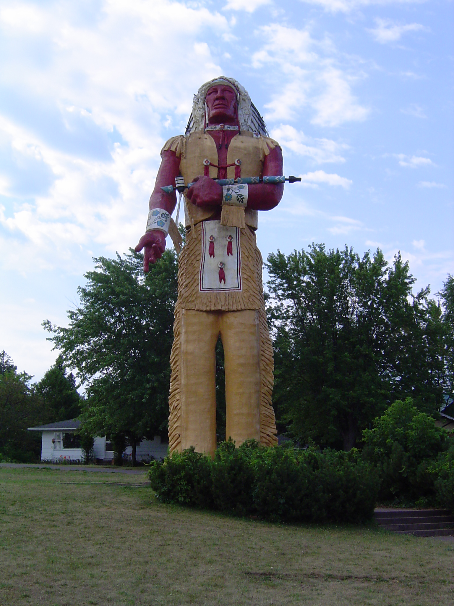 Hiawatha Hiawatha. "The world's tallest Indian." 52 feet high. 18,000 lbs. All fiberglass. Erected June 1964 by the Ironwood Chamber of Commerce. Photo July 8, 2007.